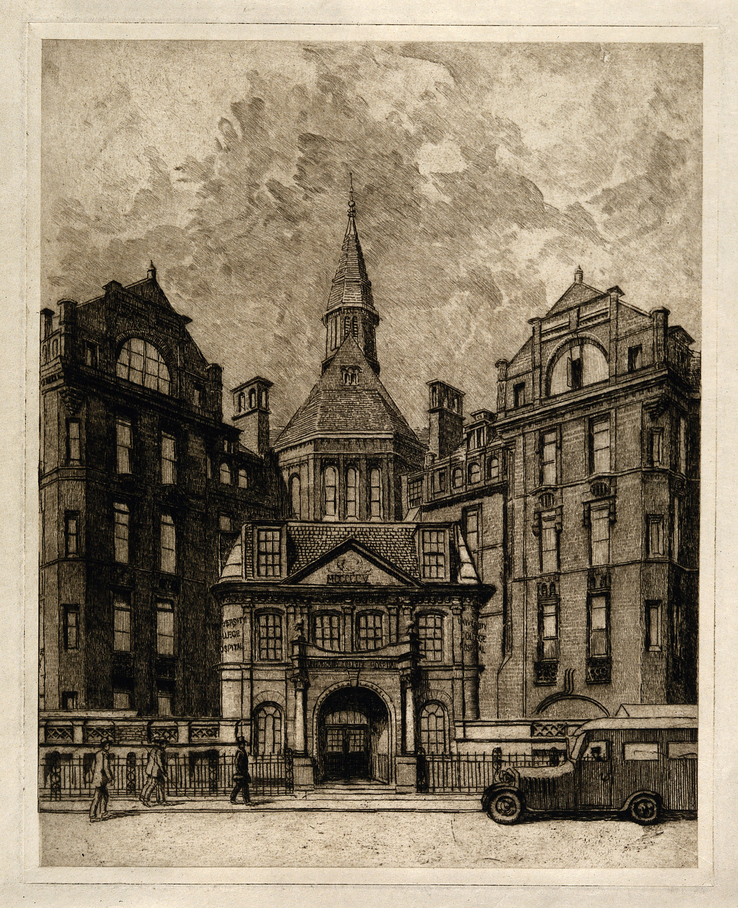 University College Hospital, London: the entrance facade on Gower Street. Etching. Iconographic Collections Keywords: England; Paul Waterhouse; Alfred Waterhouse; Waterhouse, Paul 1861-1924; Hospitals; University College Hospital (Bloomsbury, London)